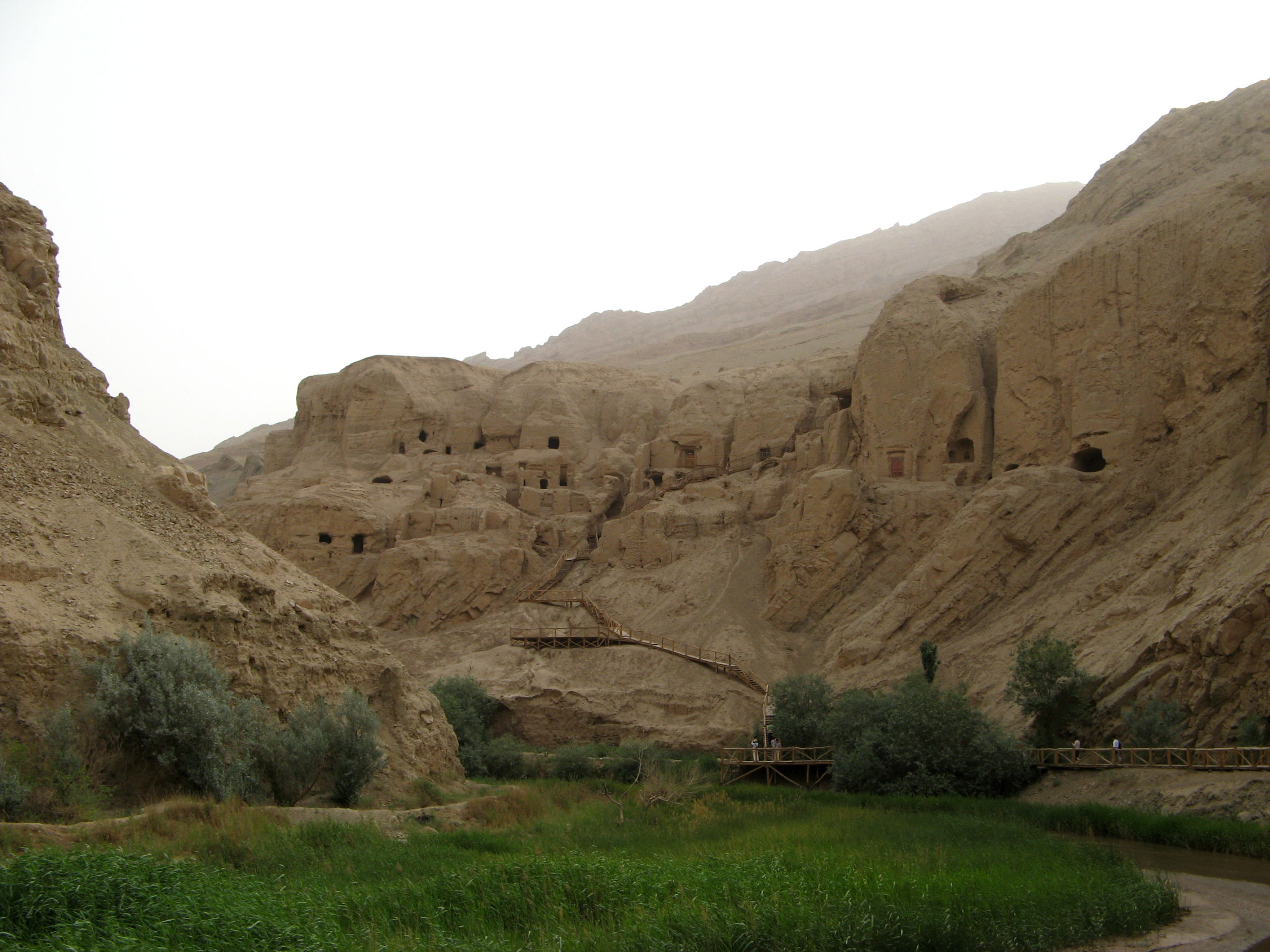 Toyuq Buddhist Caves. Near Turpan, in Xinjiang The Buddhist grottoes at Toyuq date from the 5th to the 10th centuries AD, when the Uighurs converted to Islam. The river, winding down from the mountains, would have provided water and greenery to sustain the resident monks.